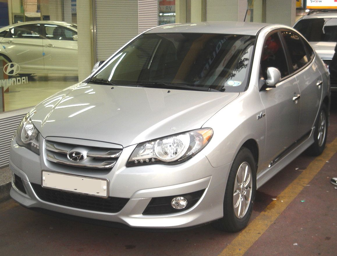 Hyundai Avante Hybrid LPI, photographed in South Korea.